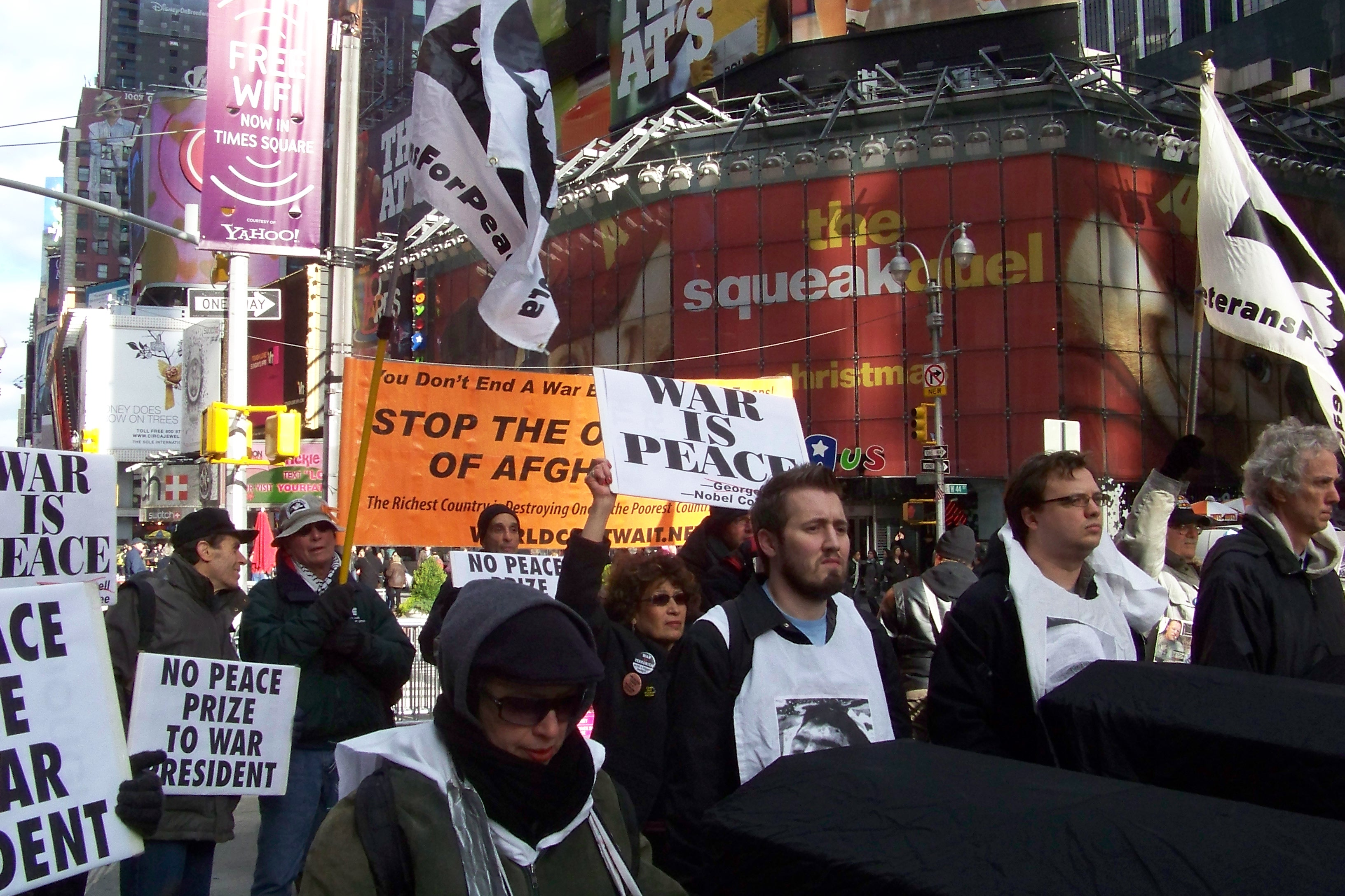 144 Coffin March